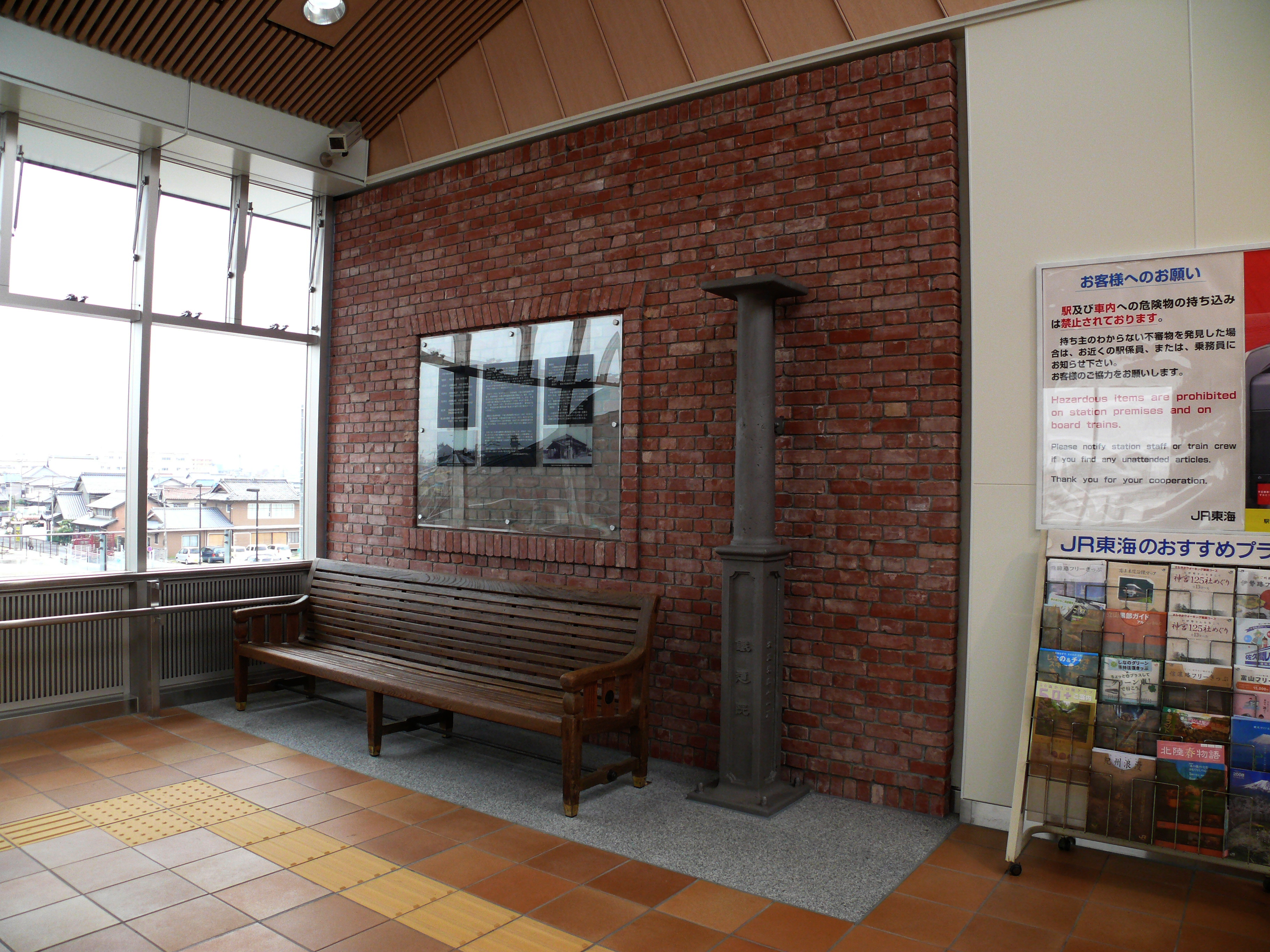 JR Central of Kisogawa Station.